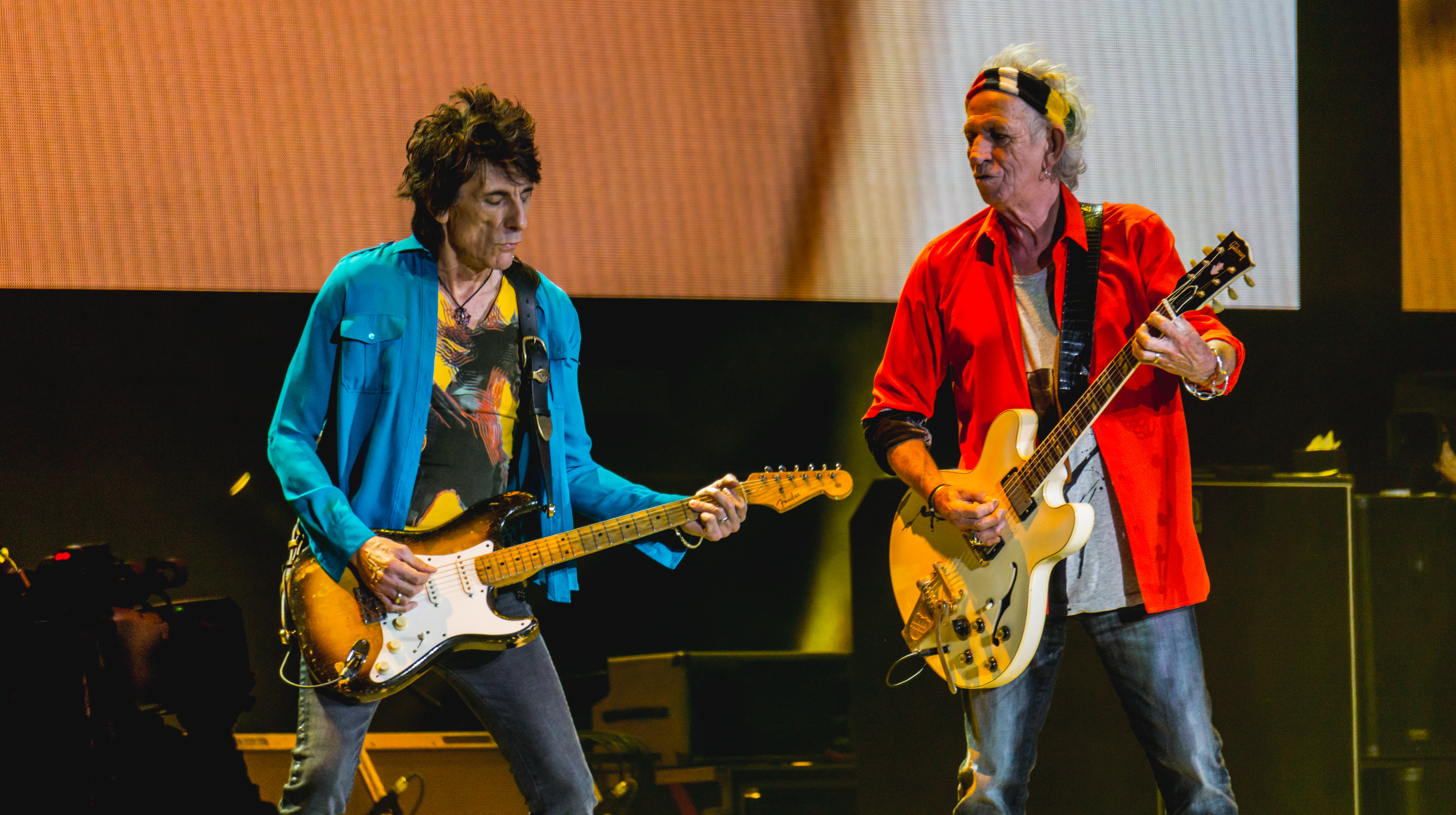 A performance by the Rolling Stones on October 7, 2016 from the music festival Desert Trip, held at the Empire Polo Club